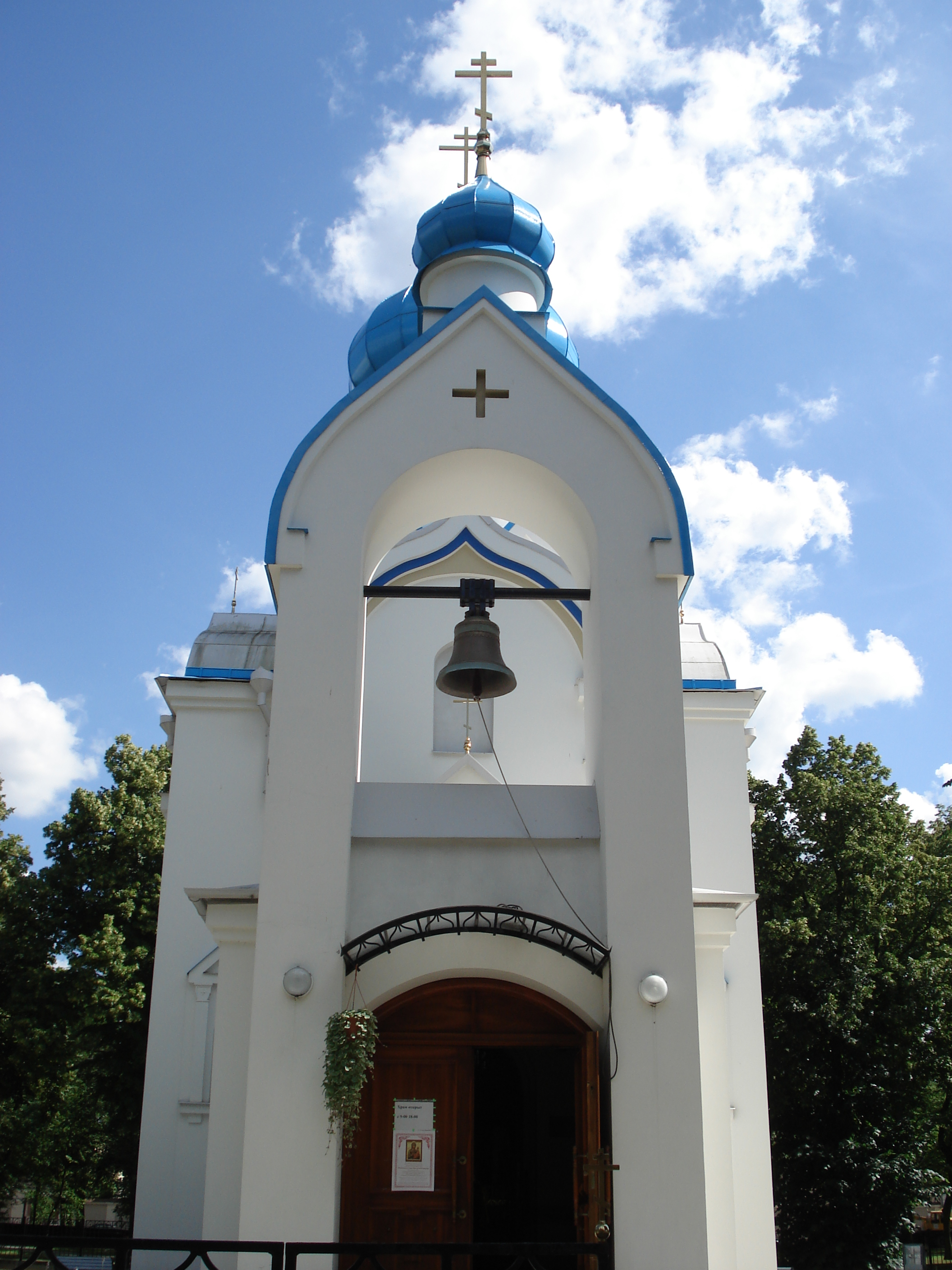 Daugavpils St Alexander Nevsky Orthodox Chapel